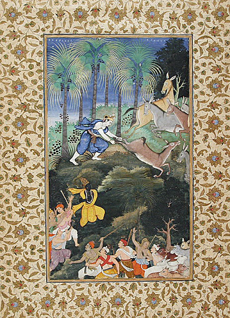 Balarama Kills Dhenukasura, Folio from a Harivamsha , an appendix of Razmnama (Lineage of Hari, Vishnu), ca 1585-1590.